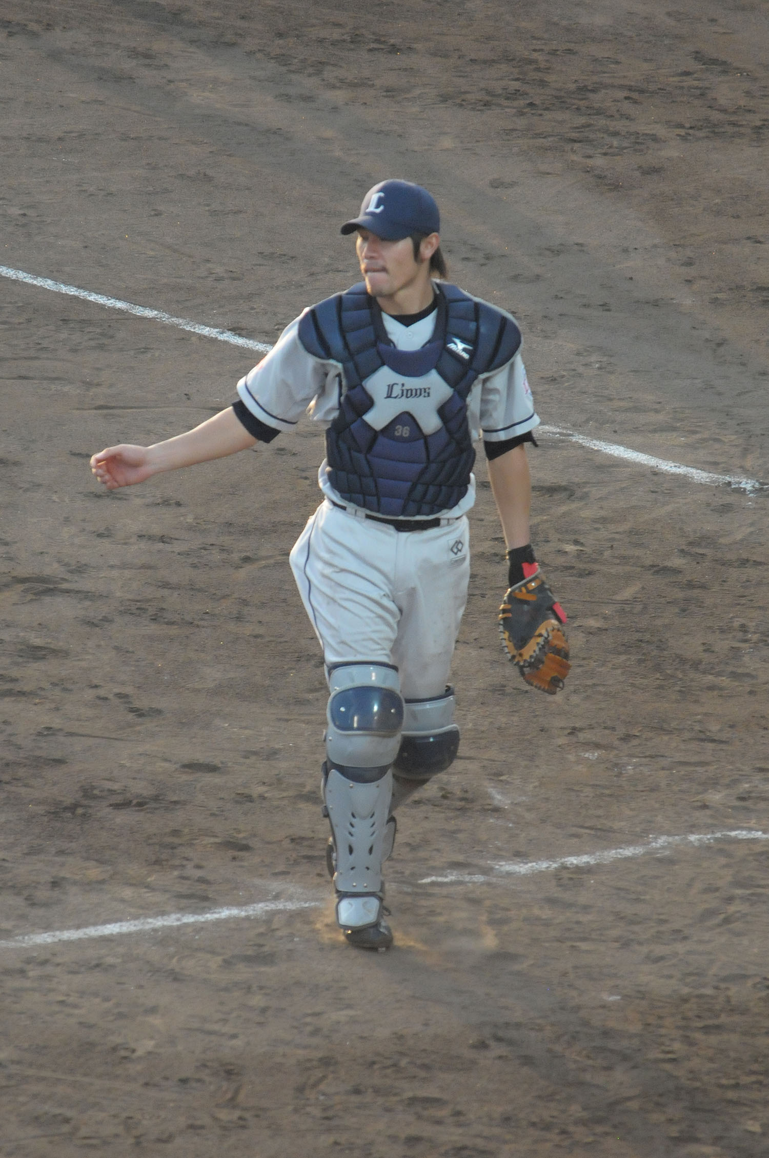 Tomohito Yoneno, catcher of the Saitama Seibu Lions, at Akita Prefectural Baseball Stadium.